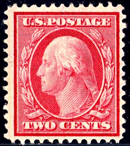 US Postage stamp: Washington Franklin Issue of 1908, 'Two Cents'